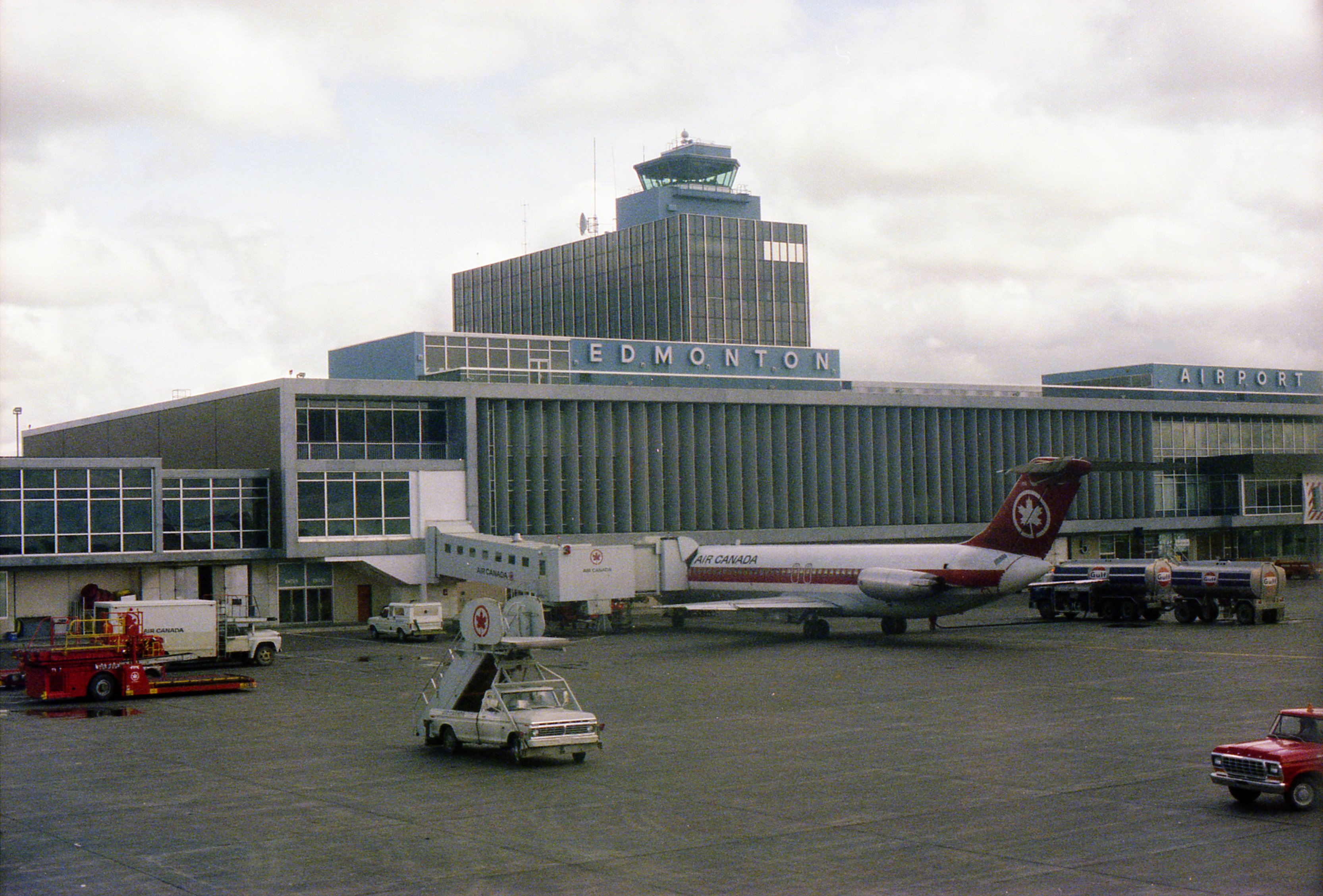 May 1979. A snap shot of an Air Canada DC-9 taken through the tinted window by my seat at the rear of a very long stretched Air Canada Douglas DC-8 (were they called series 66?) airliner whilst on my way to Vancouver from London.